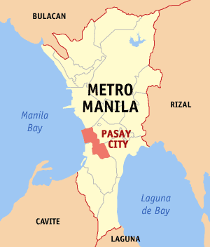 Locator map of Pasay City in Metro Manila, Philippines.